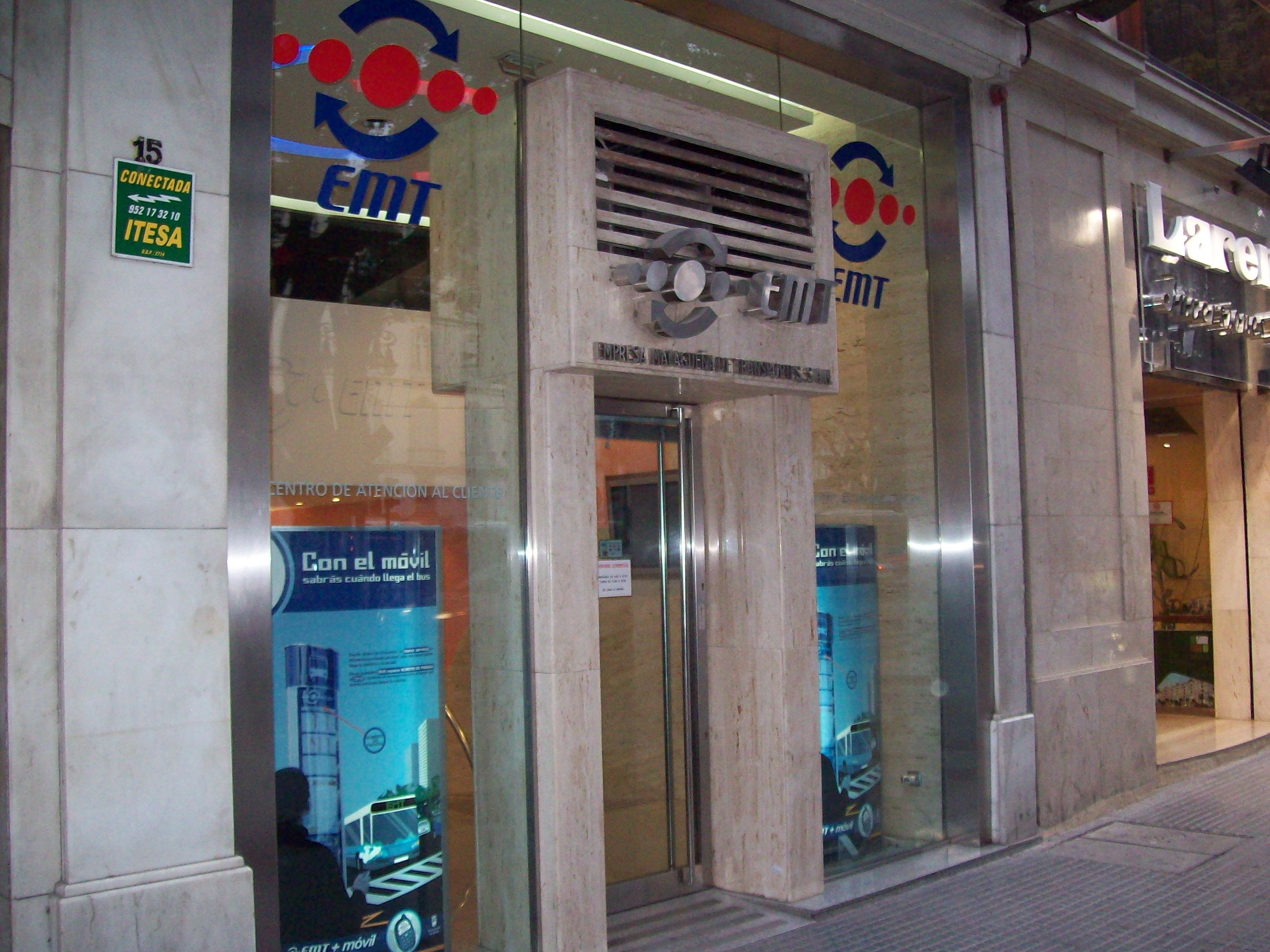 EMT office, Málaga, Spain